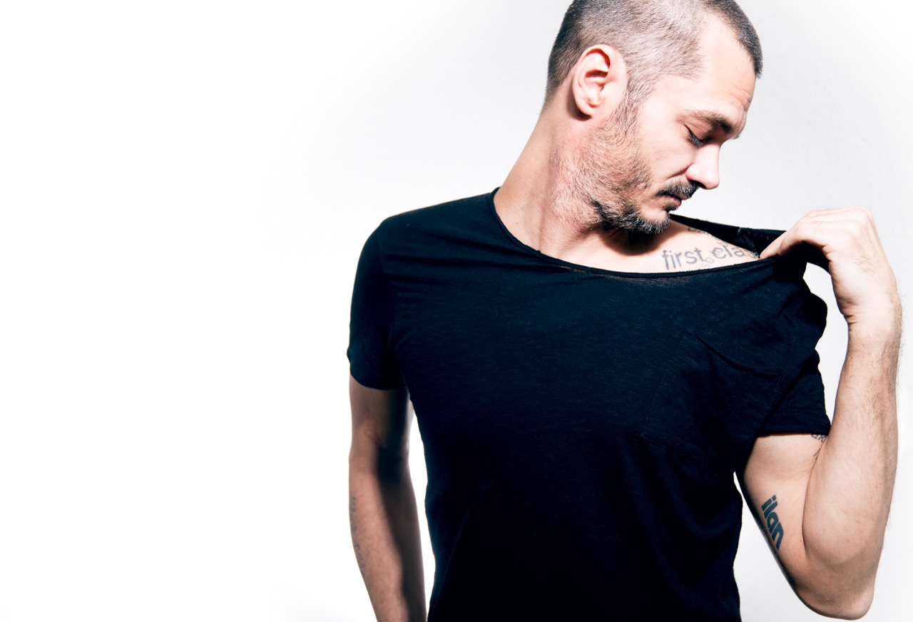 Lee Van Dowski's latest press pic